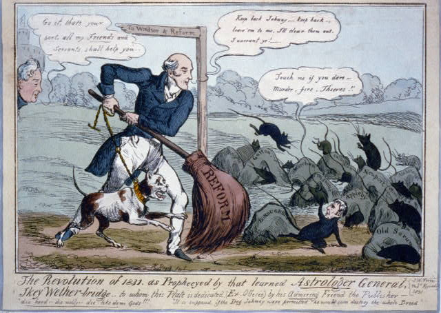 Title: The revolution of 1831. As prophecied by that learned astrologer General Ikey Wether-Bridge Abstract: Grey using a large broom, "Reform", advances against rats at their burrows (British boroughs). He holds on a chair a dog, Bull, saying "Keep back Johnny -, leave 'em to me, I'll clear them out...". Physical description: 1 print : hand-colored etching. Notes: cf: P&P - NE55.L7A3 vol. 11, no. 16690.; Hand-colored etching by Henry Heath.; Forms part of : British Cartoon Prints Collection (Library of Congress).; This record contains unverified data from caption card.